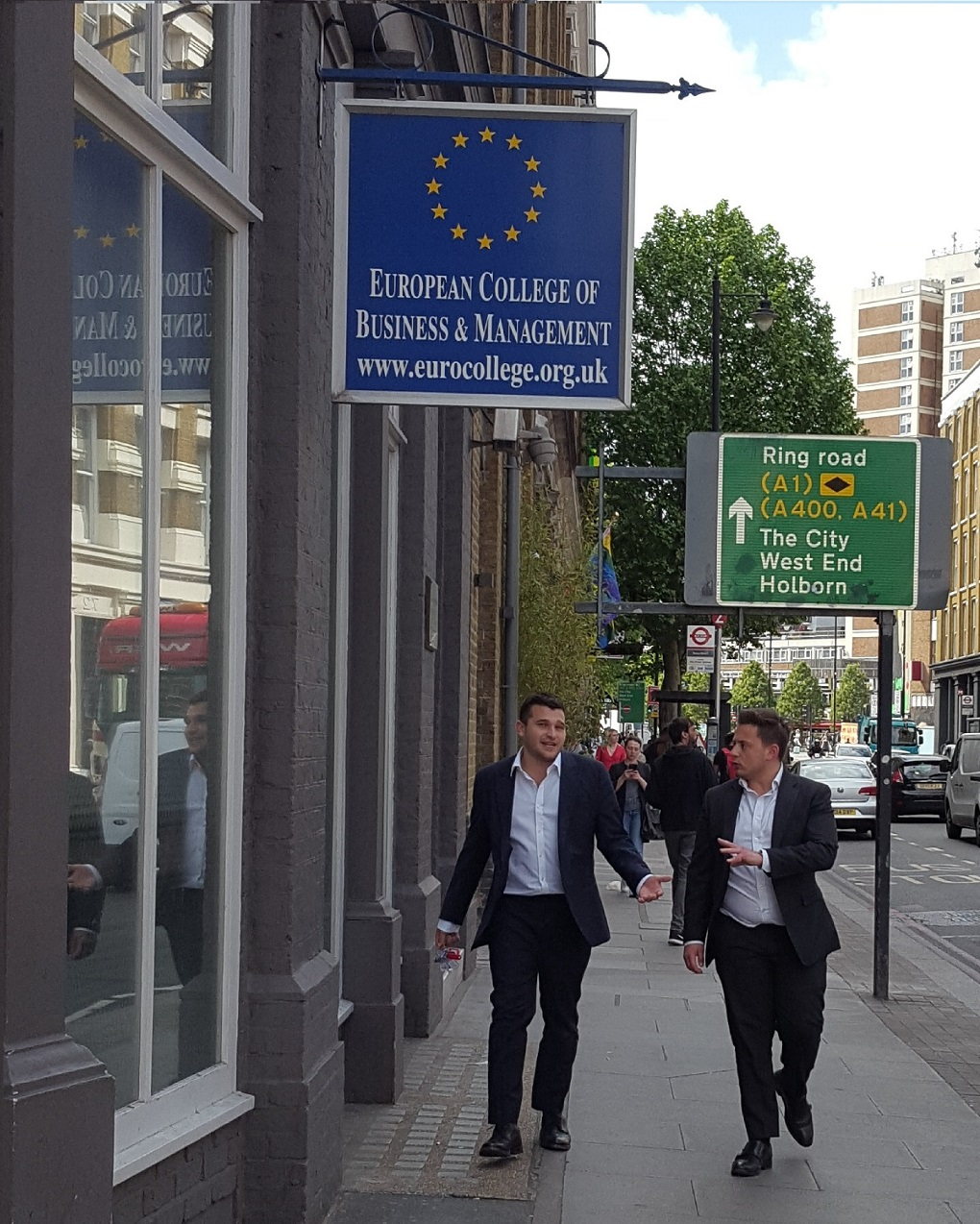 To date the ECBM has provided more than 15,000 students with important business, cultural and language skills to enable them to work successfully in an international environment.